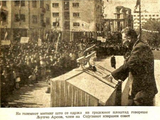 Ljupco Arsov 10.11.1961 Kumanovo